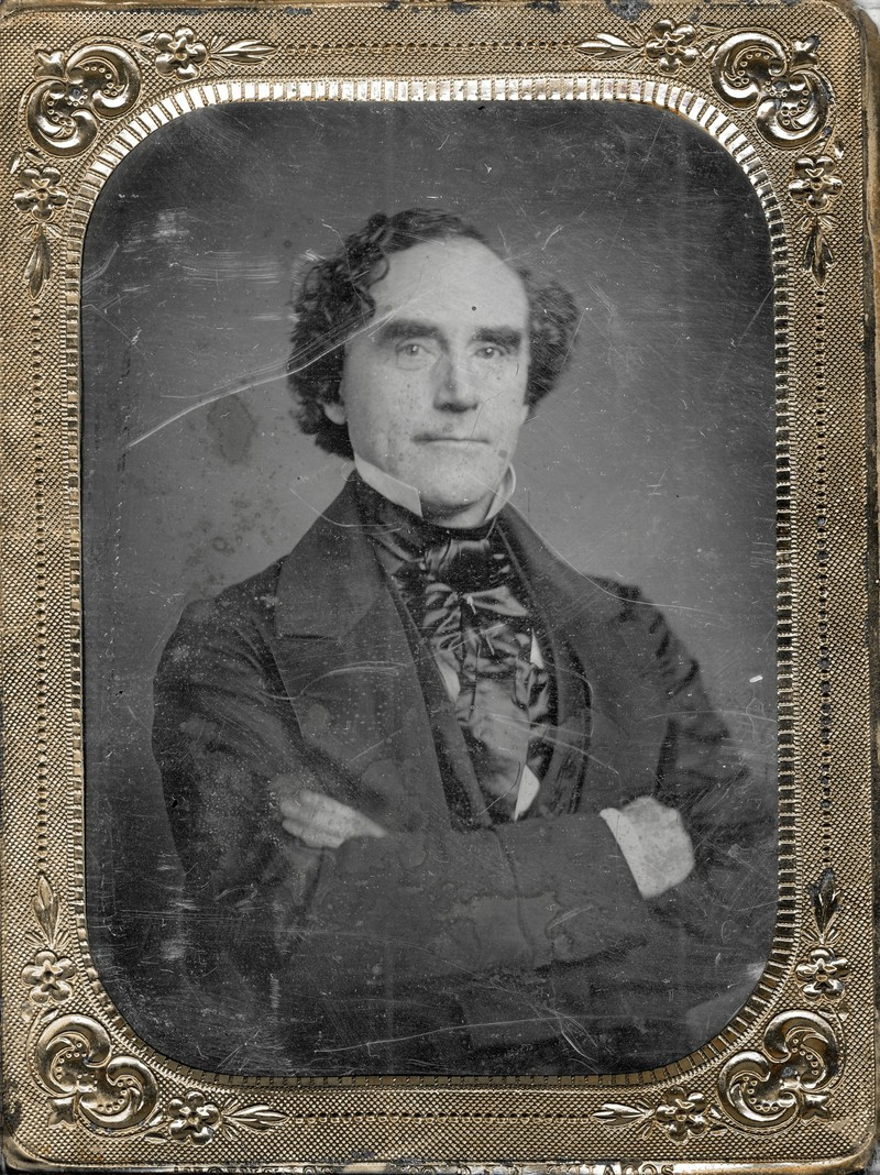 Photograph of Meriwether Lewis Clark, about 1850, aged 40, Missouri History Museum. Note: Daguerreotype portrait of Meriwether Lewis Clark, son of William Clark, who was named after his father's associate Meriwether Lewis. Meriwether Lewis Clark served as a Confederate general in the Civil War and was a politician.